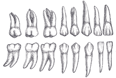 Permanent teeth. Right side. (Burchard.)